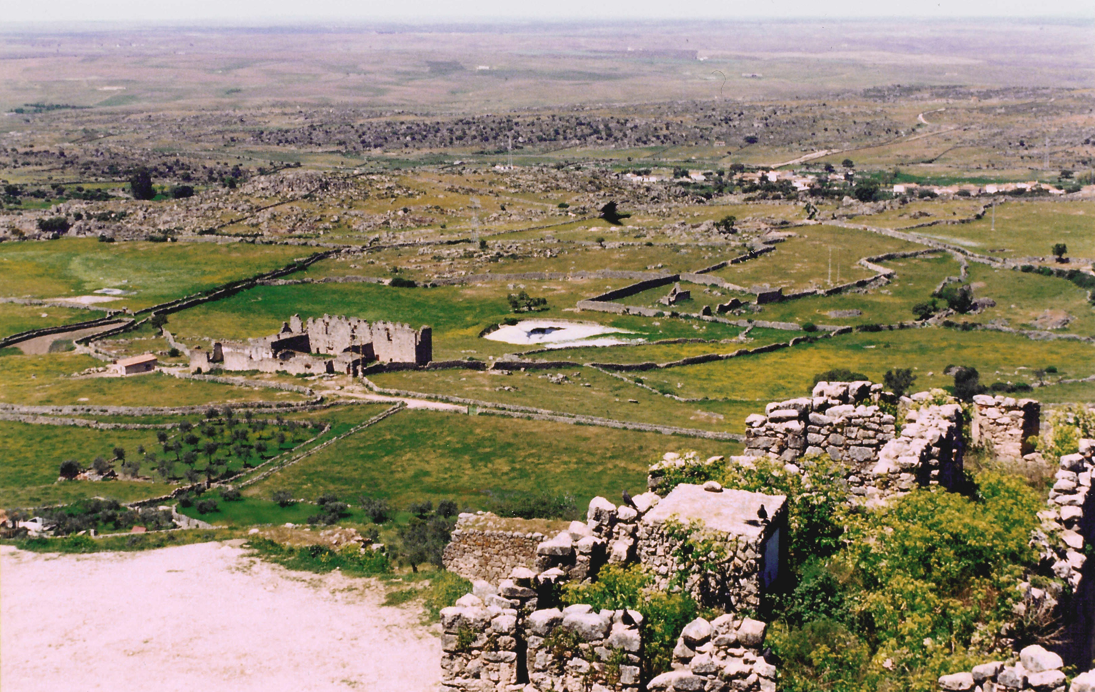 Countryside and ruins seen from the largely ruined old castle in Trujillo, Extremadura, Spain.